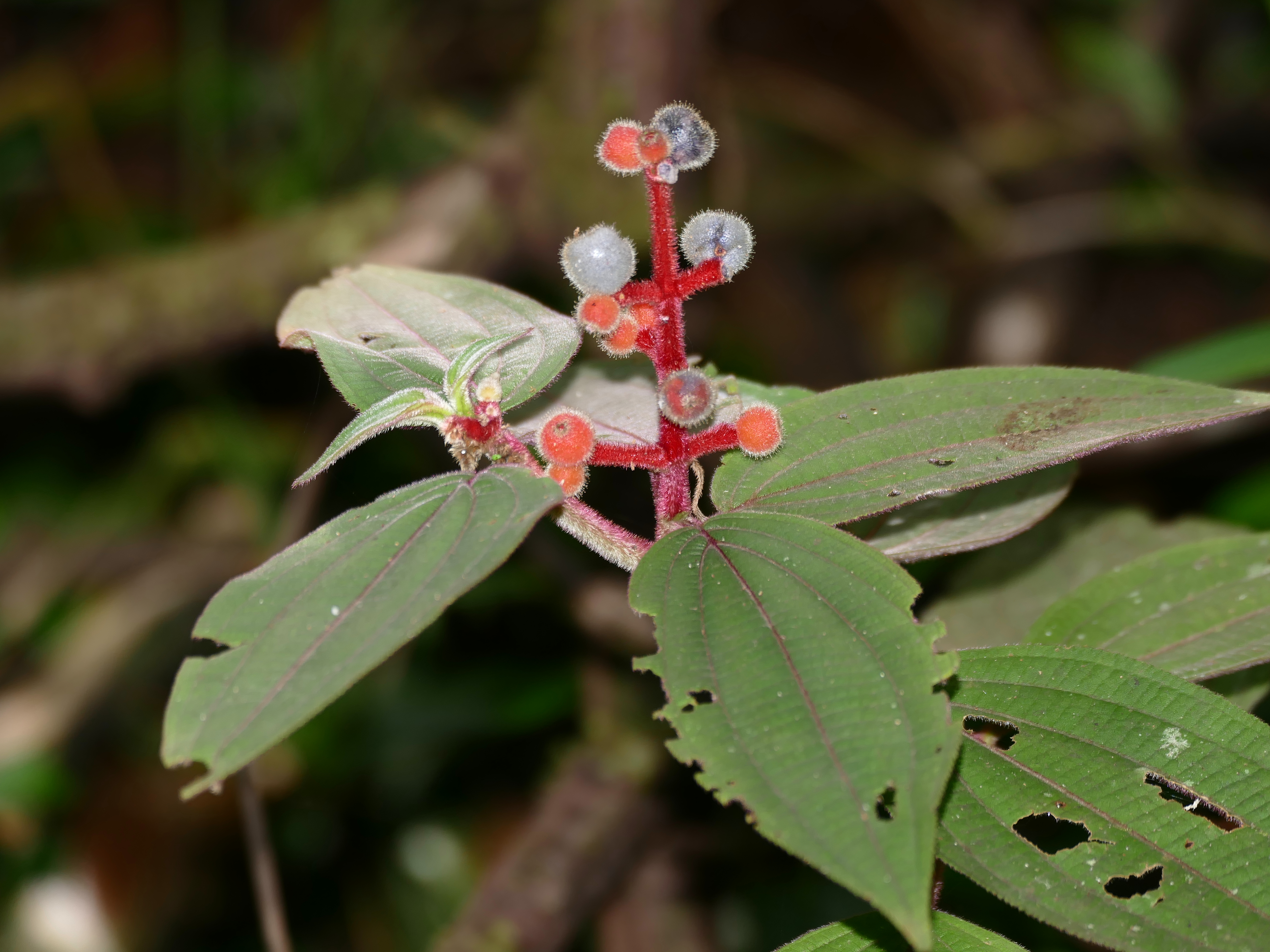 PK46, D6 Route de Kaw, Roura, French Guyana, FRANCE